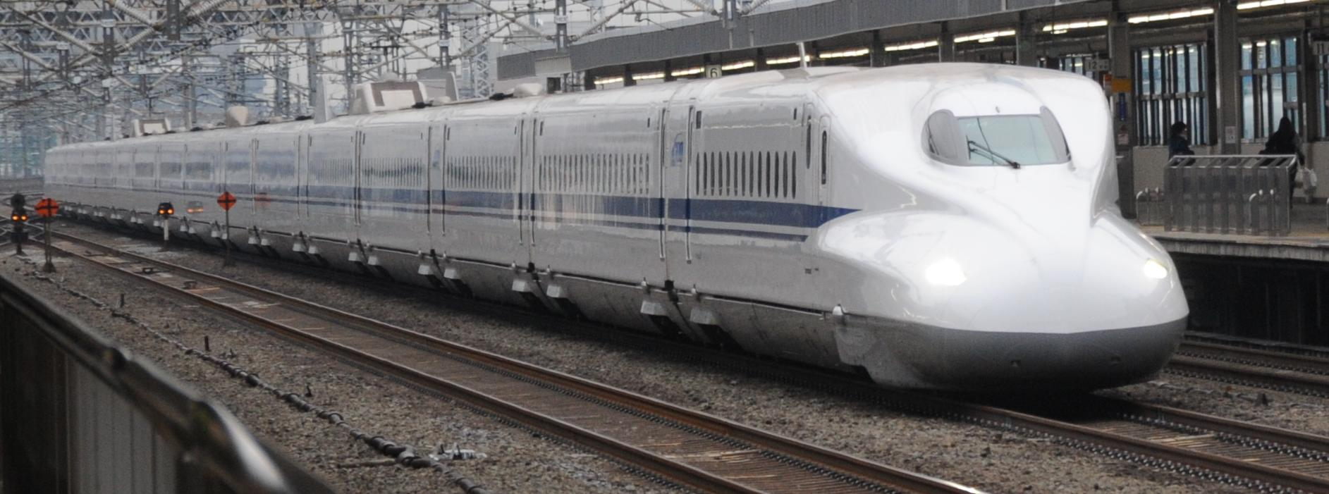 N700 Shinkansen